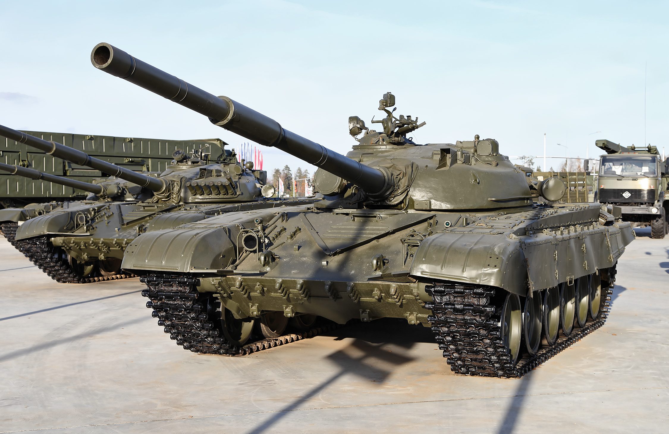 T-72 tank